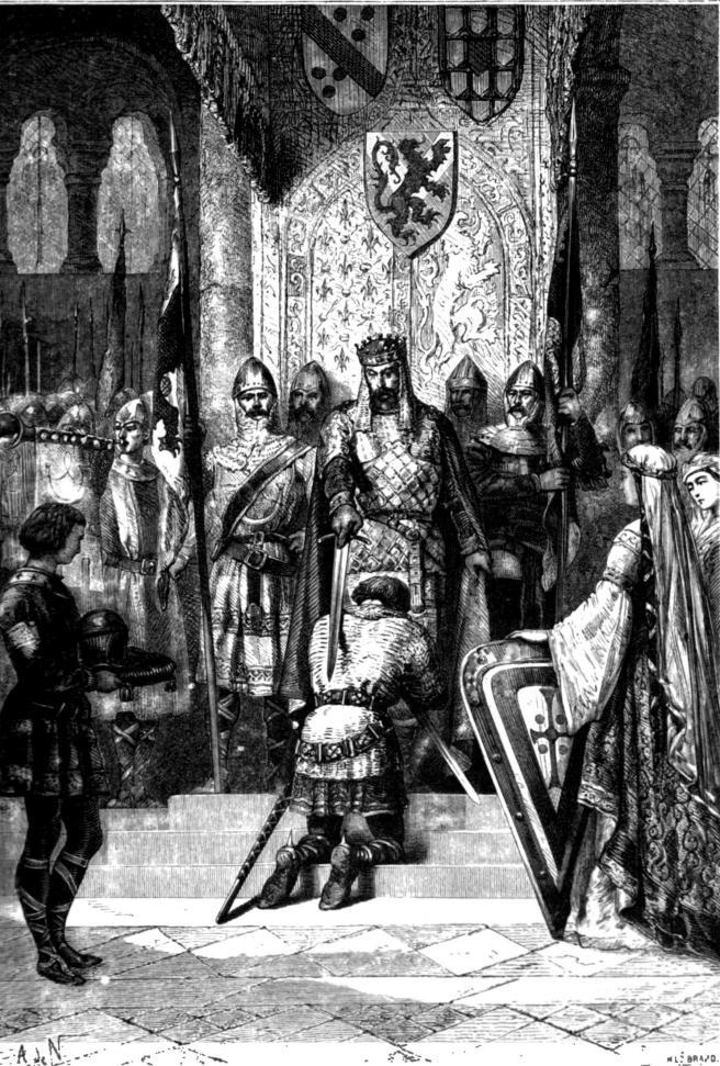 The Accolade